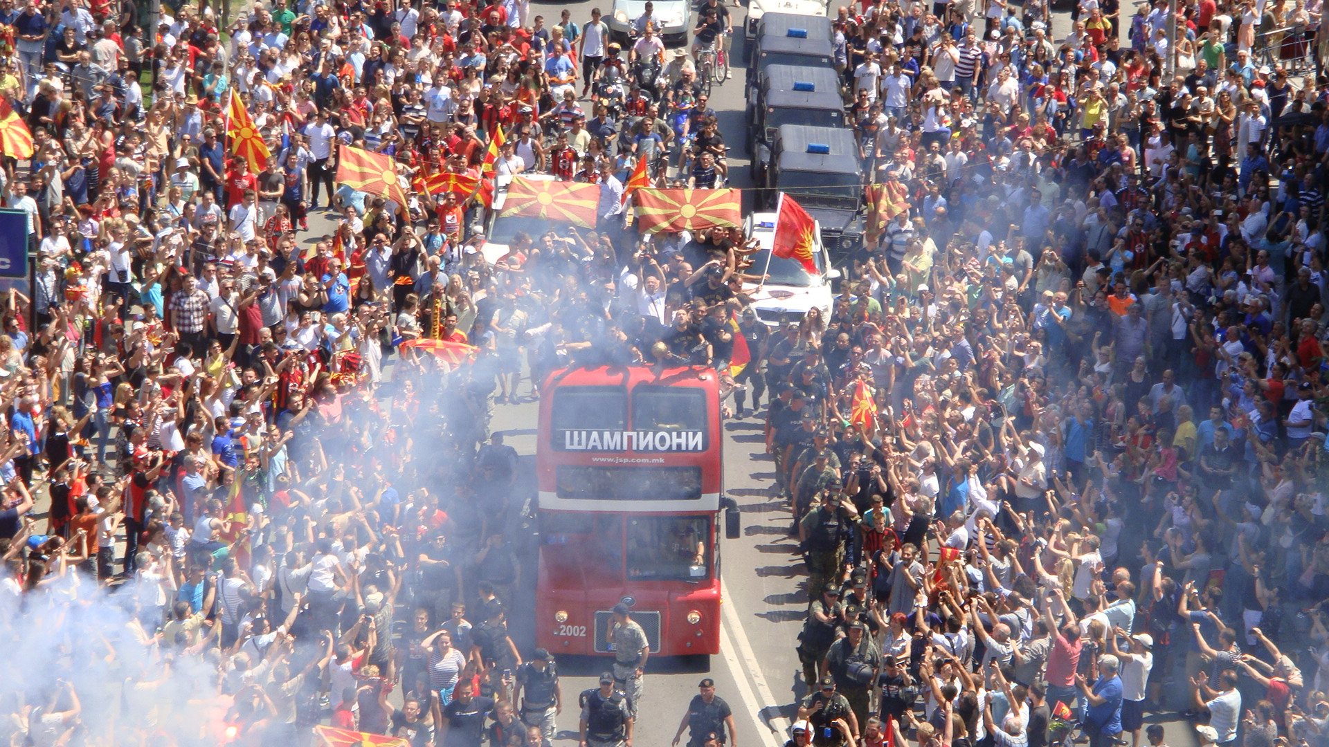 Vardar, the handball club from Skopje, Republic of Macedonia coming home after winning EHF Champions League